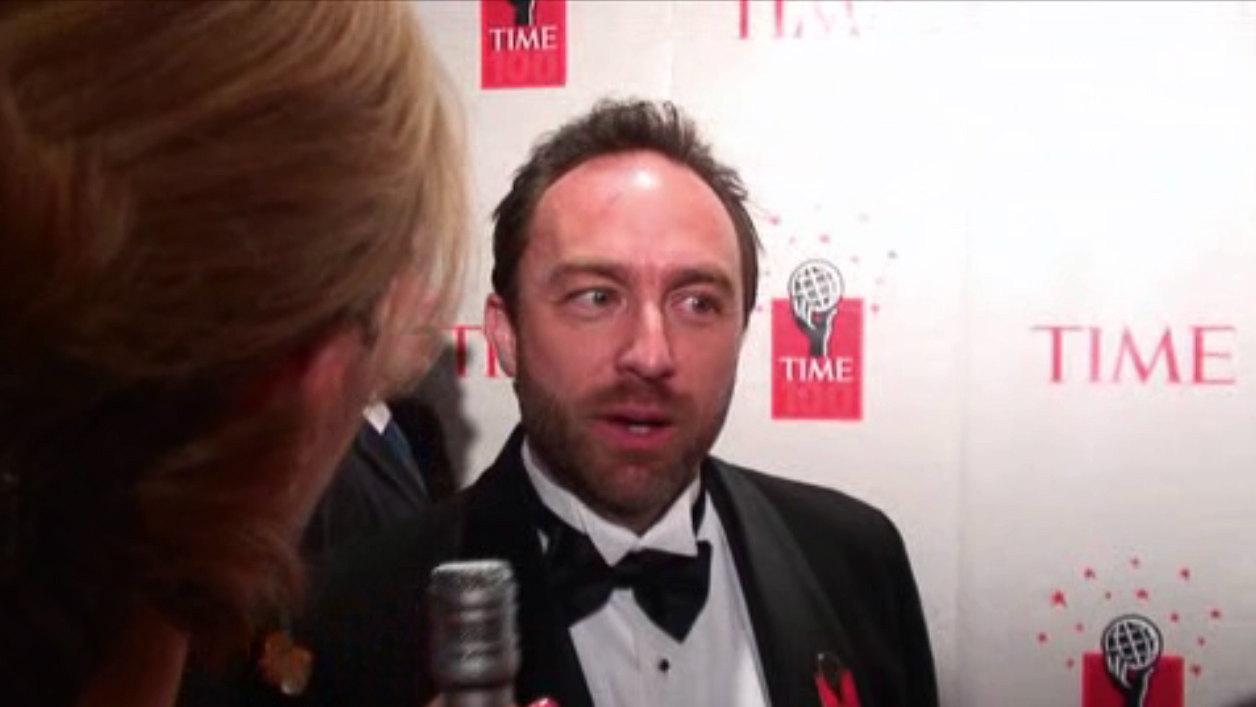 Time 100 2006 gala, Jimmy Wales speaks to Amanda Cogdon.